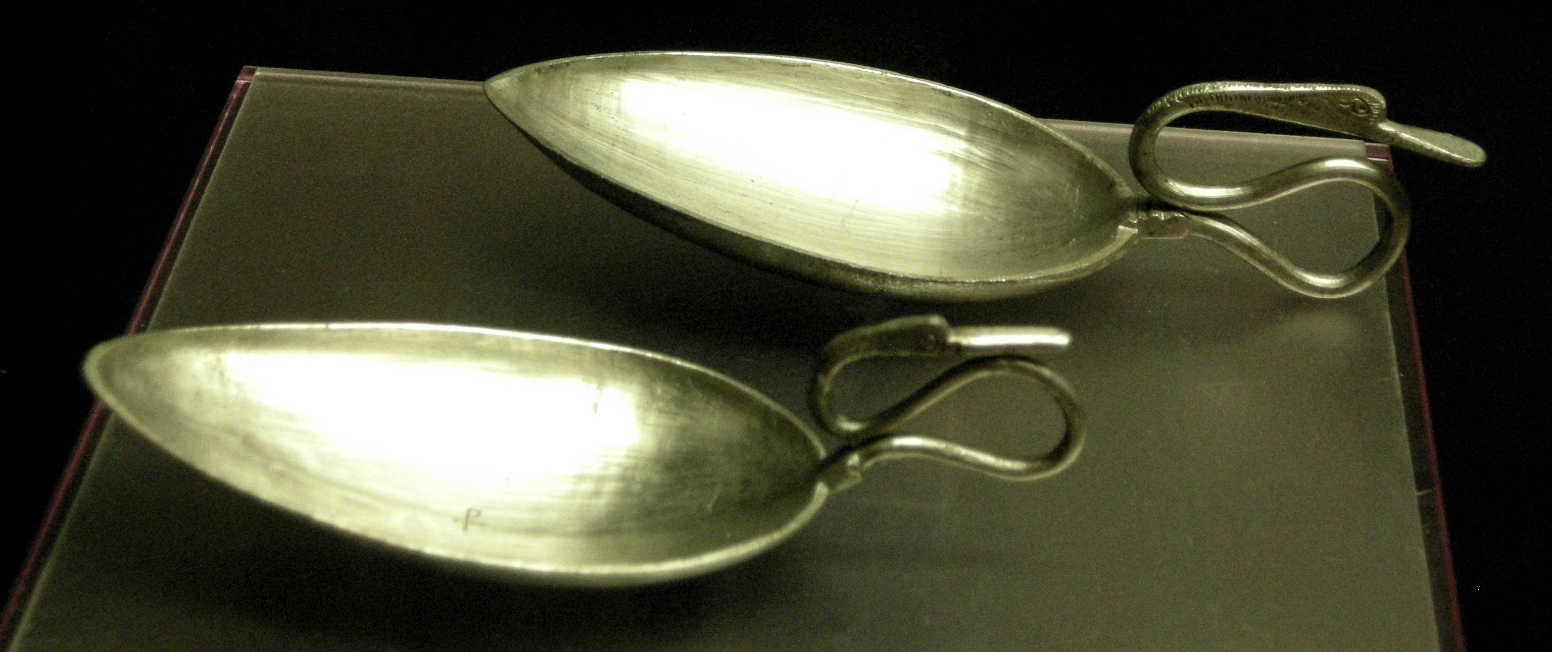 Roman Museum in Butchery Lane, Canterbury, Kent. Spoons with duck or swan handles: part of a hoard found locally. Production: spoon bowls are annealed and stamped out; handles are drawn with forged bird-head ends; patterns are punched with a die. One spoon has a Christian symbol engraved on the bowl. All techniques still used today by silversmiths.